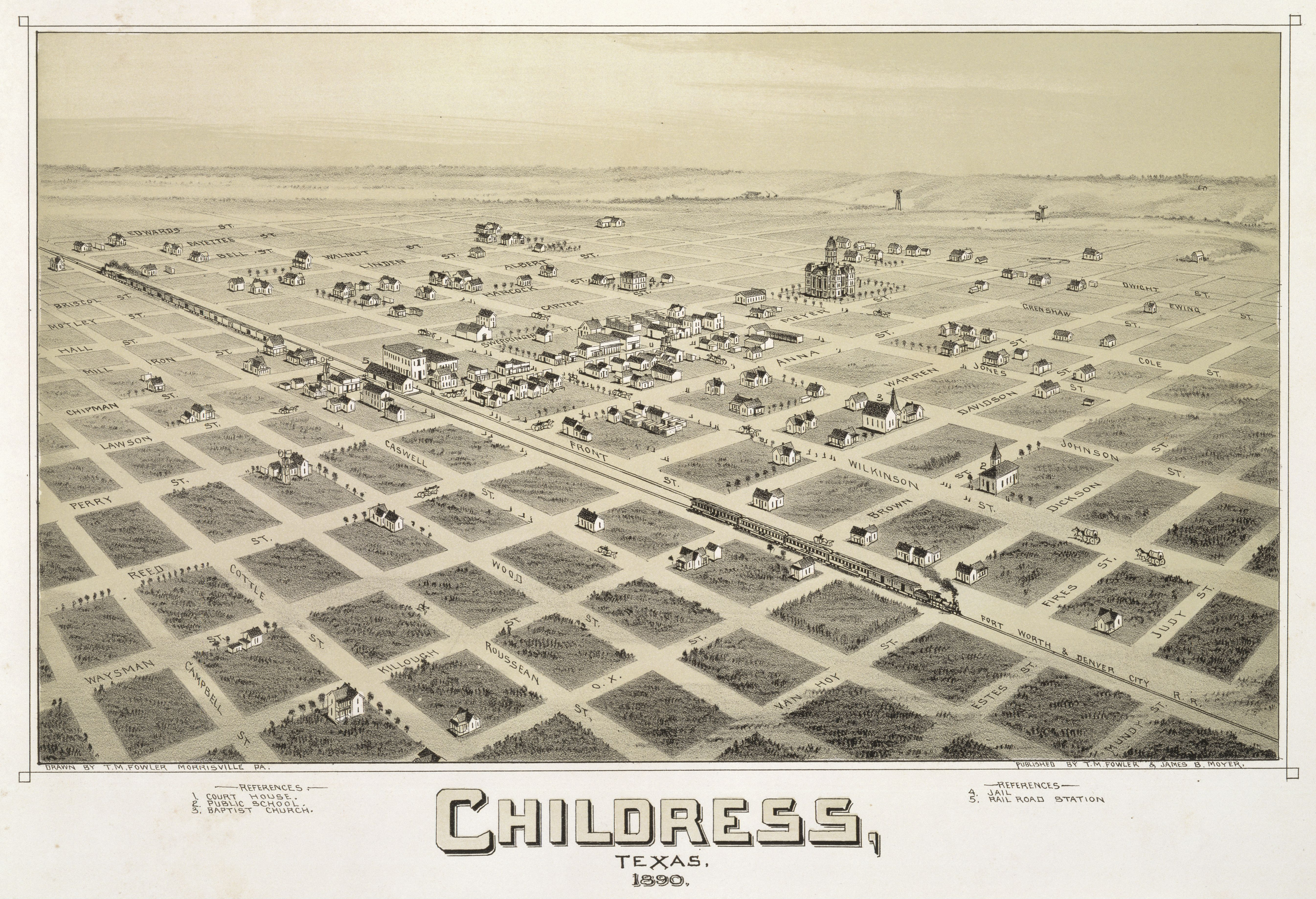 Childress, Texas in 1890. Childress, Texas, 1890, 1890. Toned lithograph, 9.6 x 16.2 in. Published by T. M. Fowler and James B. Moyer. Amon Carter Museum, Fort Worth.